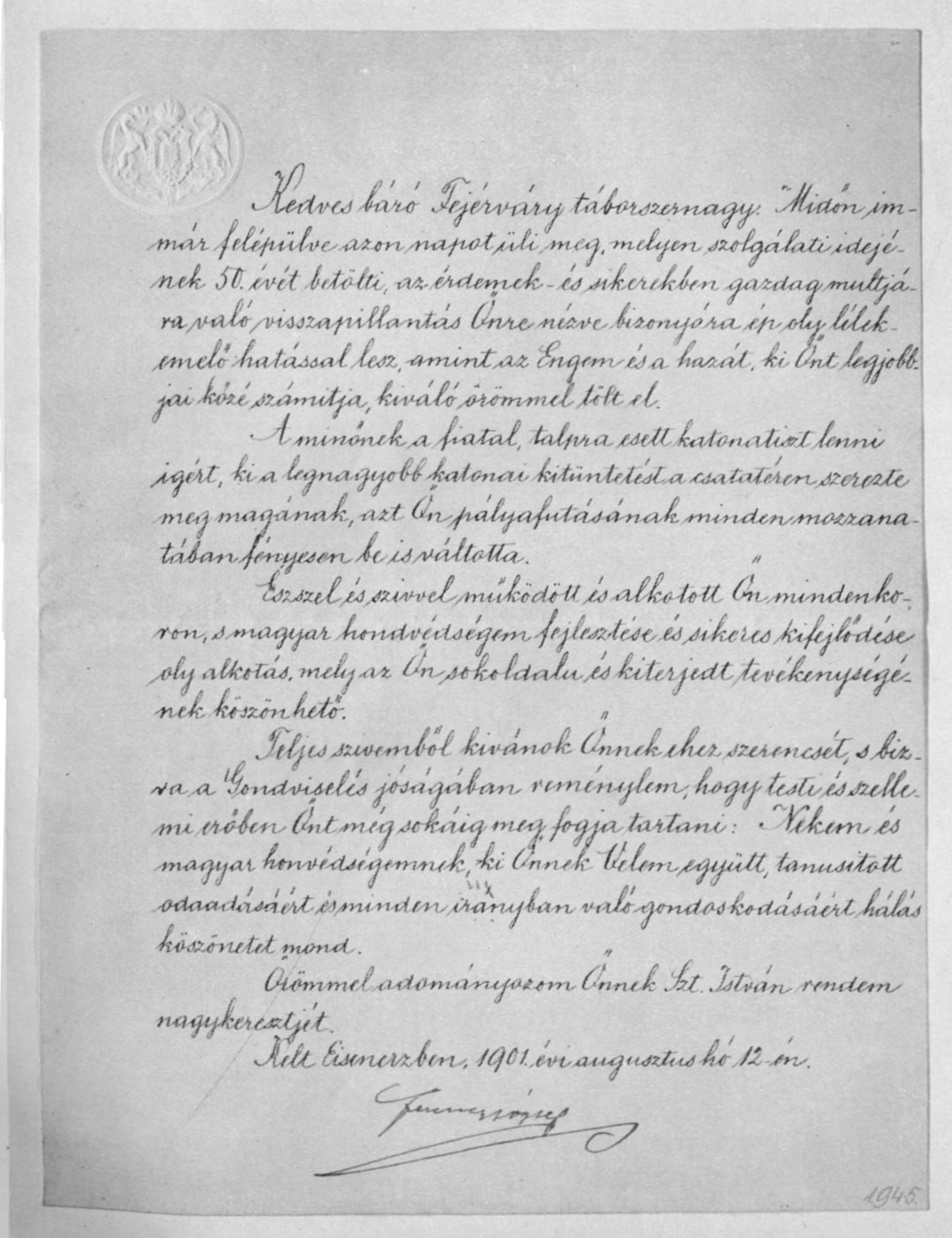 Letter from Franz Joseph I of Austria to Géza Fejérváry commemorating Fejérváry's 50th anniversary of military services and also the delcaration of awarding him the big cross of the Order of Saint Stephen of Hungary